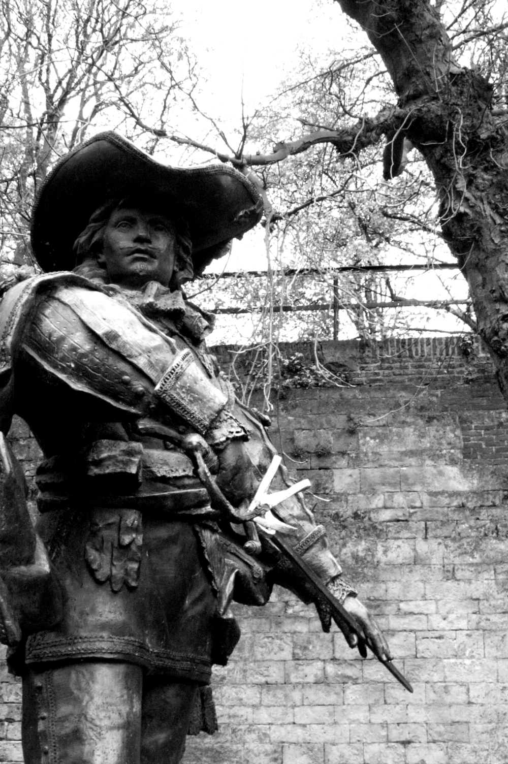 Statue of Charles de Batz de Castelmore (D'Artagnan) in the Maastricht city park